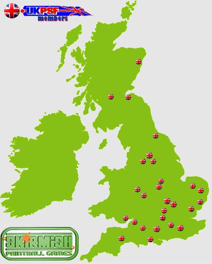 Locations of Skirmish Paintball Games